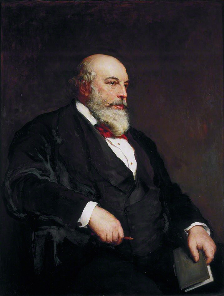 Horace Jones (1819–1887), Architect oil on canvas 114 x 89 cm 1886